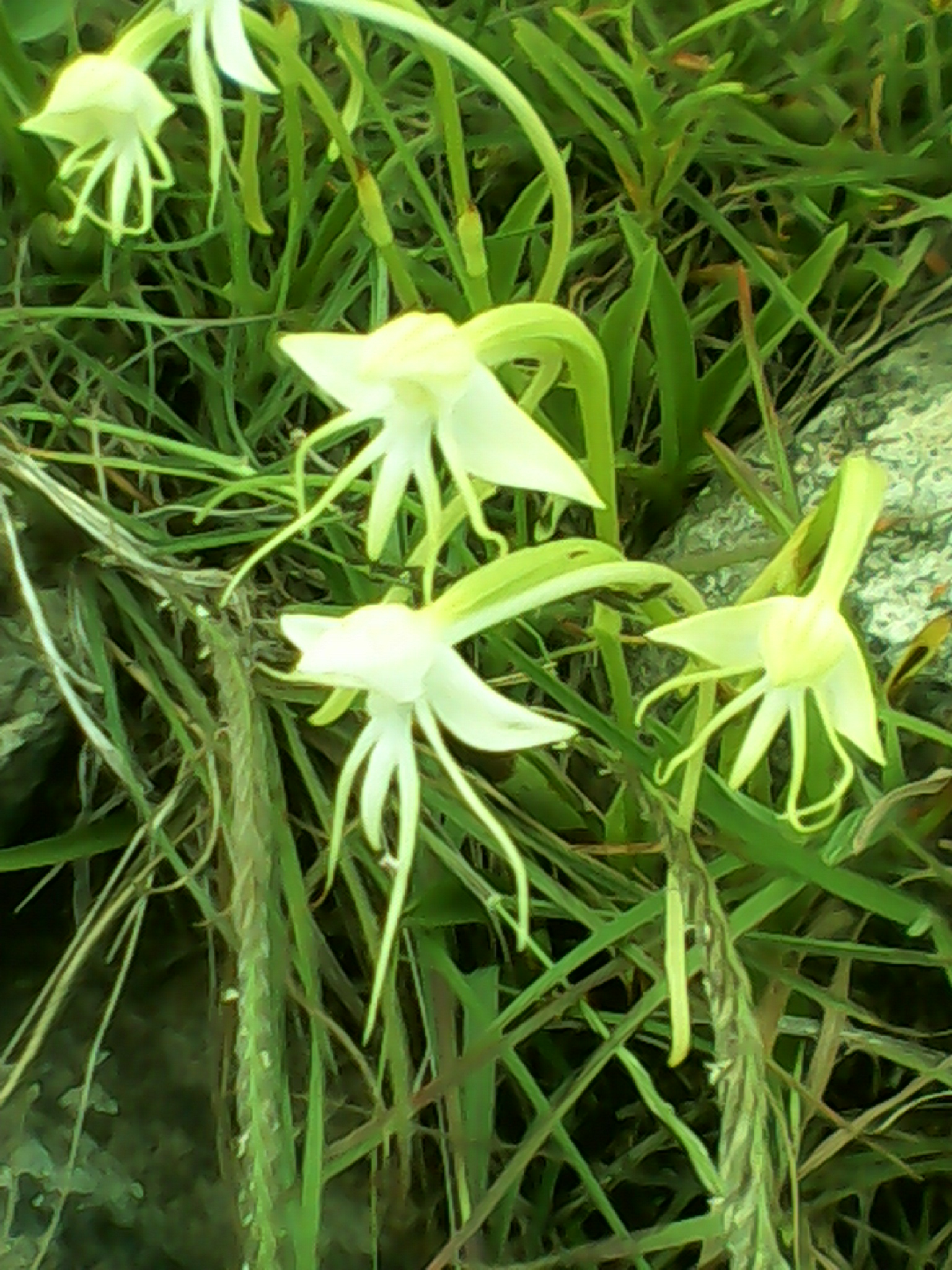 Terrestrial bulbous herb,flowers white, fragrant.-Spider like flower.